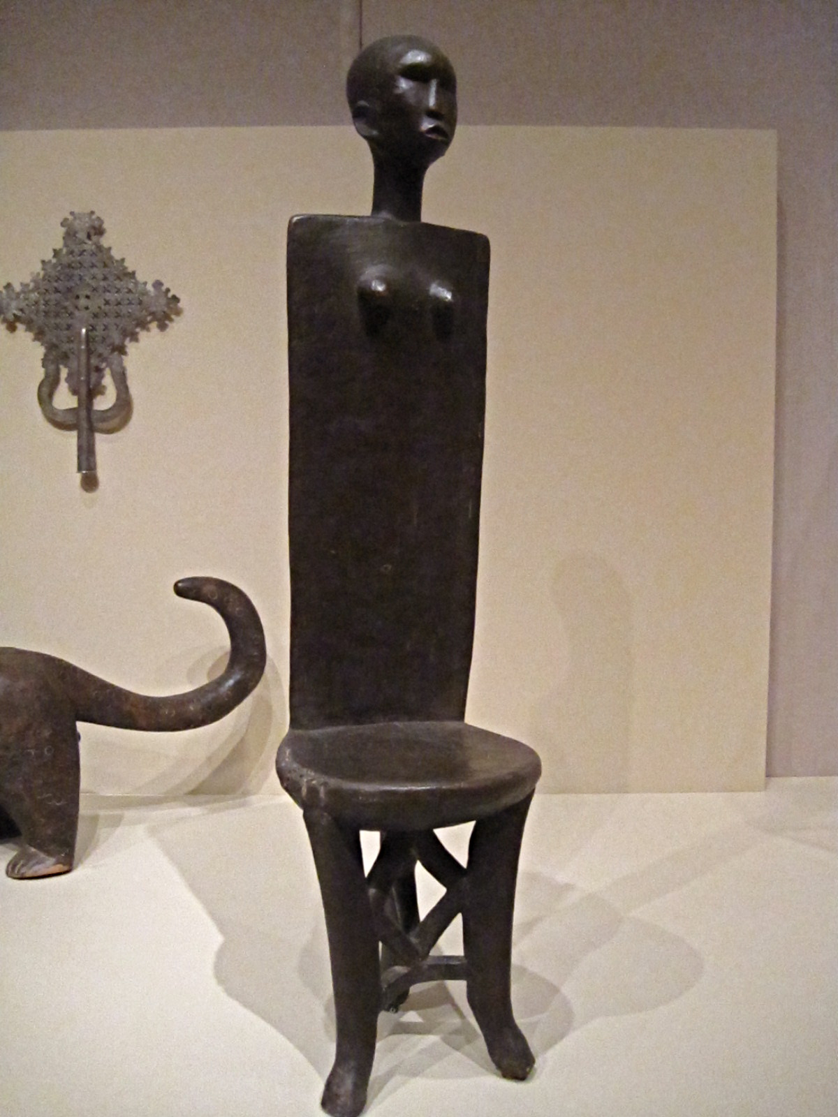 Wooden Chair, Luguru Peoples, Tanzania, 19th to 20th century. Toledo Museum of Art